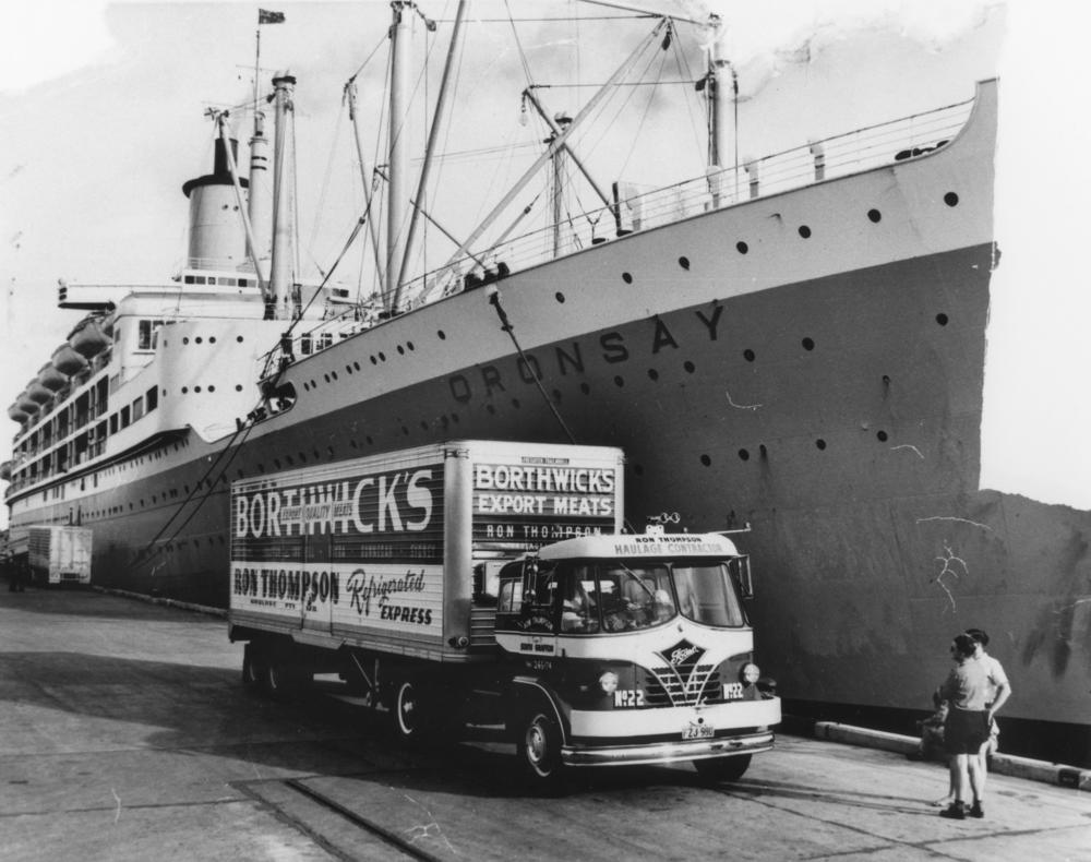 A Borthwick's Foden export meat truck alongside the Orient Line Steam Navigation Co liner Oronsay at a Brisbane wharf